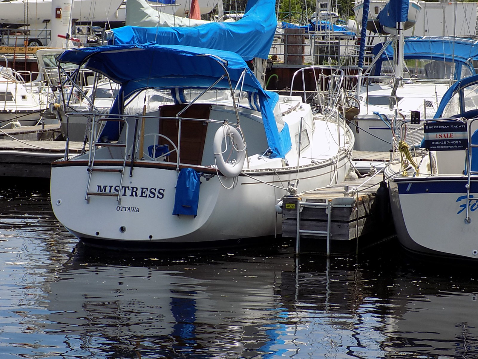 A Grampian 30 sailboat named Mistress.